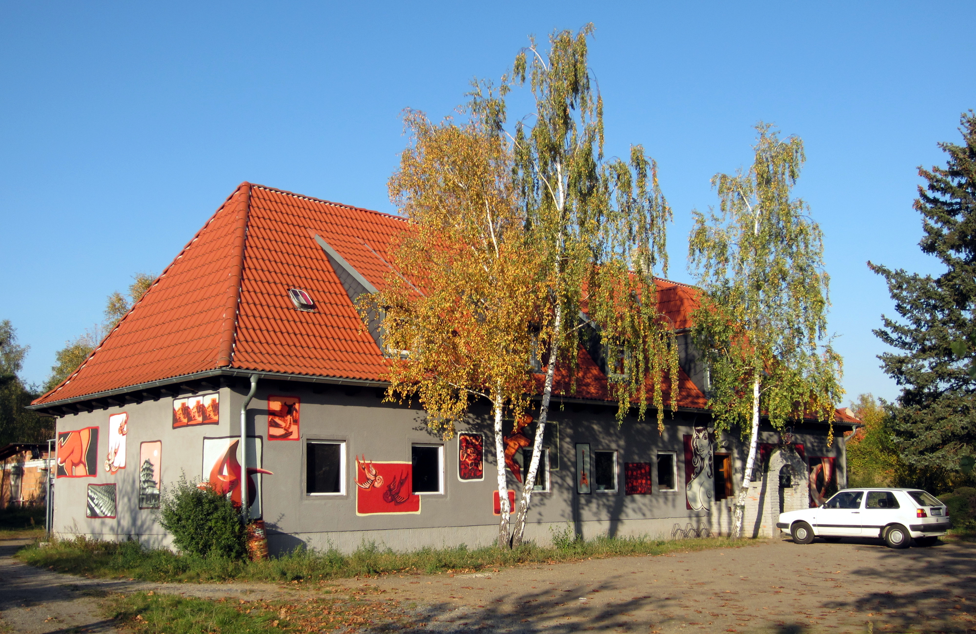 Conny-Wessmann-Haus of the Verein zur Förderung alternativer Jugendarbeit in Großenhain, Saxony